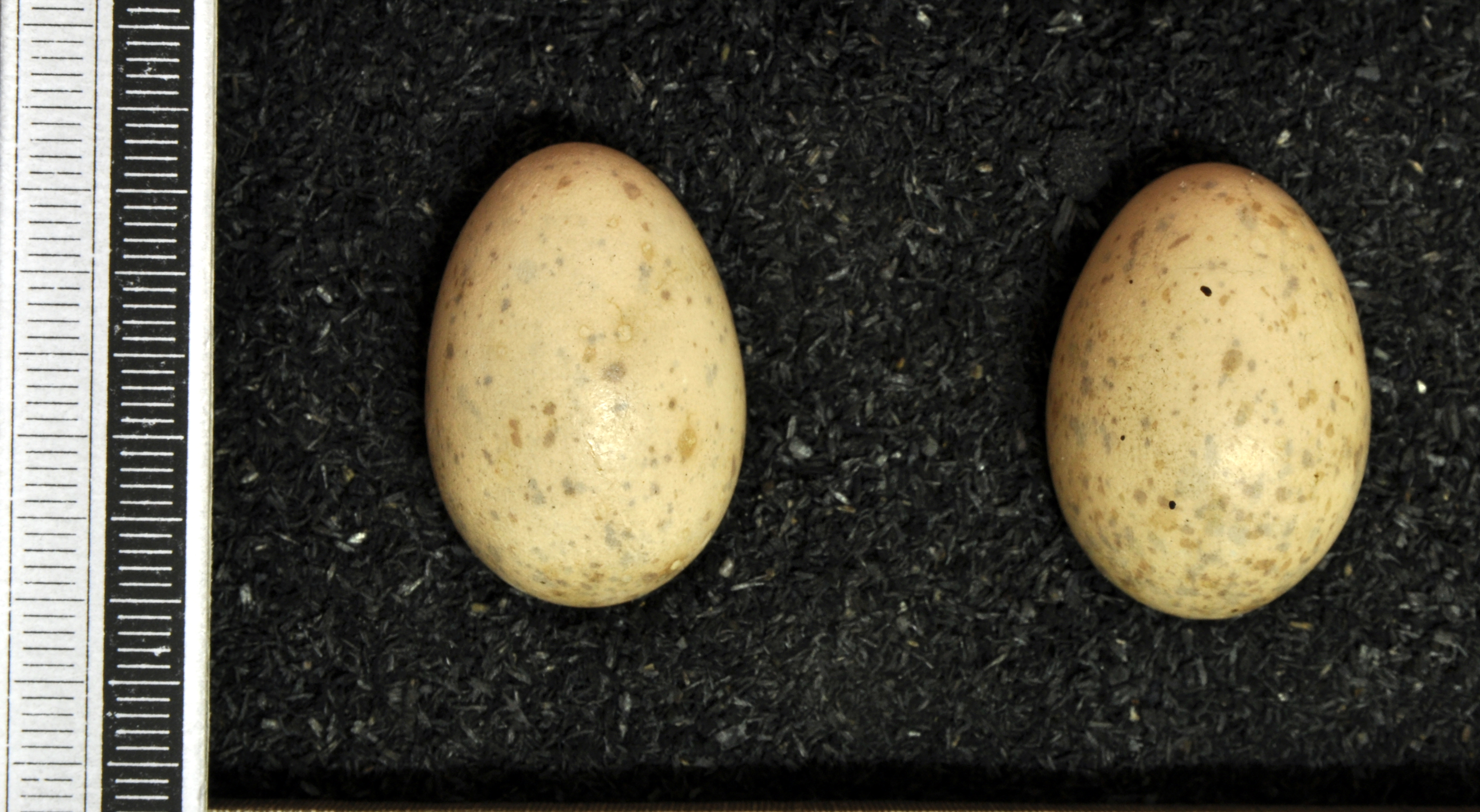 Blue jay Cyanocitta cristata , egg, Coll. Museum Wiesbaden